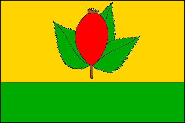 Municipal flag of Nesuchyně , District Rakovník, Czech Republic